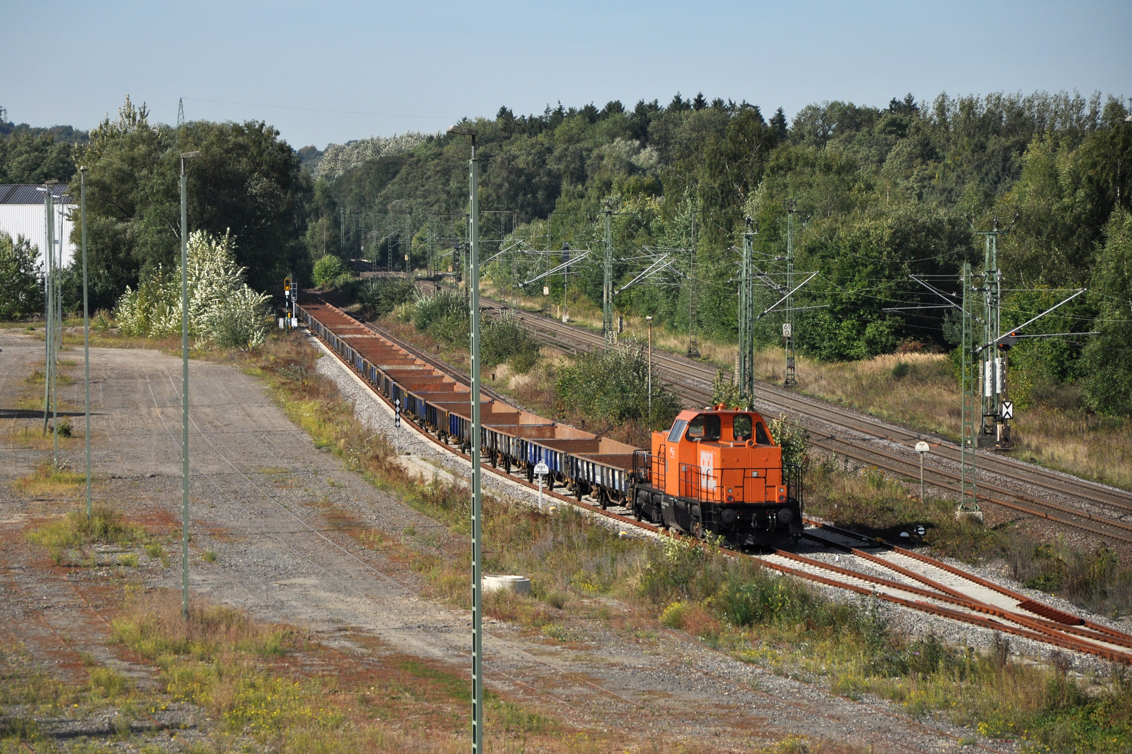 The former shunting area V in Stolberg has been abandoned and flattened. The tracks for the Ringbahn Herzogenrath-Alsdorf-Stolberg, however, are already finished in this place. Therefore, track construction trains are often parked here. This one is pulled by BBL 15, UIC ident. 92 80 1214 026-7.